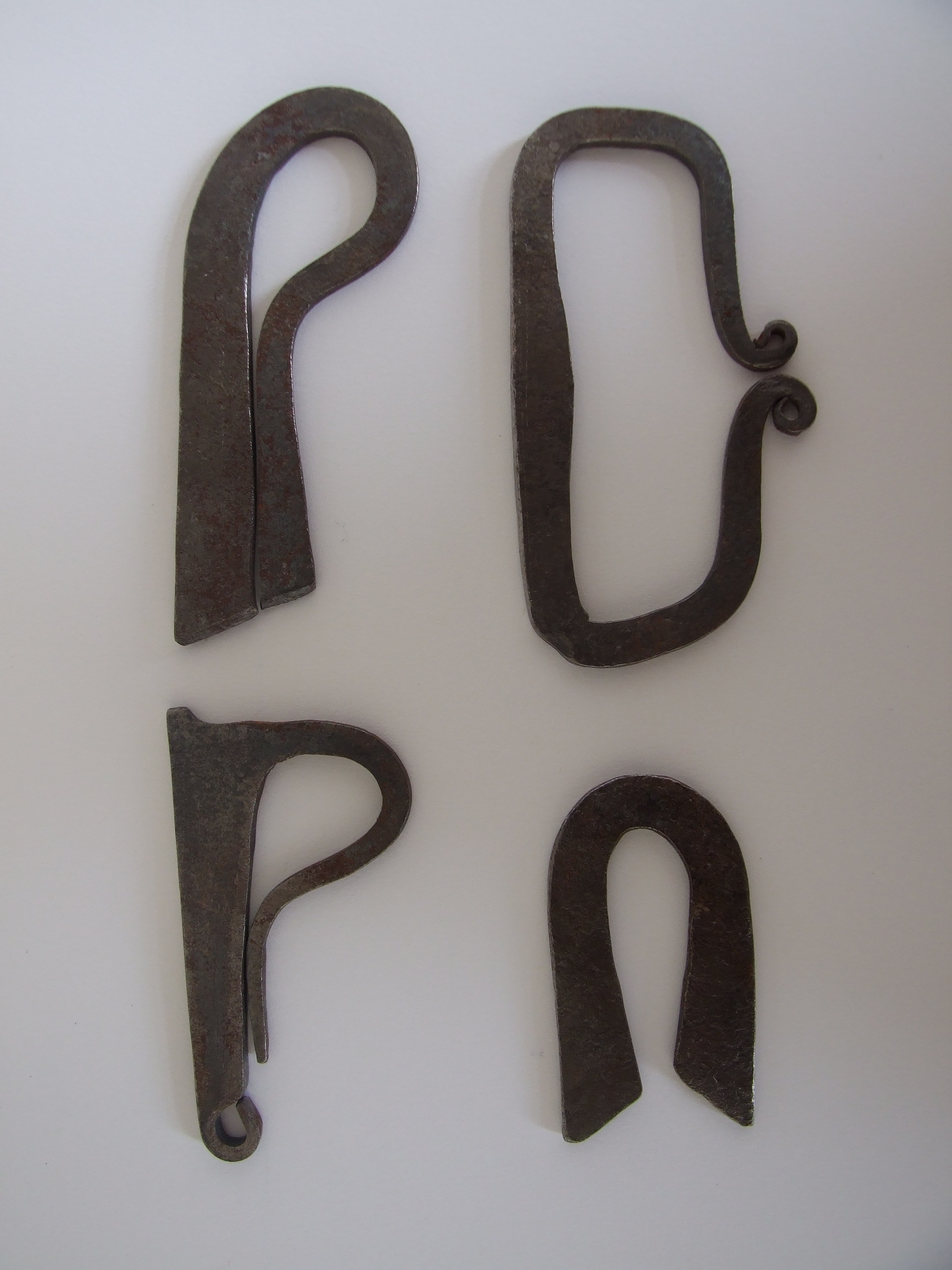 Four firesteels. Reproductions. Typical of Roman through medival period.